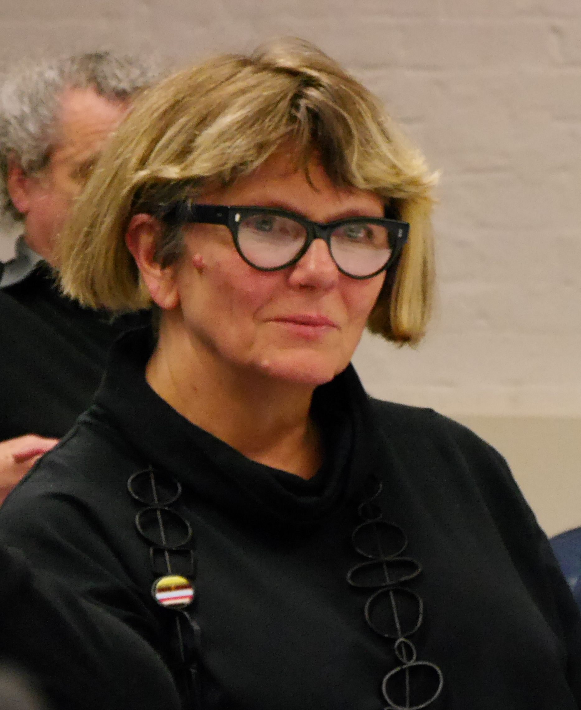 Long Table on Live Art and Feminism with Lois Weaver, 25 April 2014